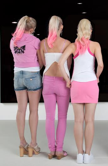 Photo by DIS, 2012. Fair Trade, Frieze Projects 2012